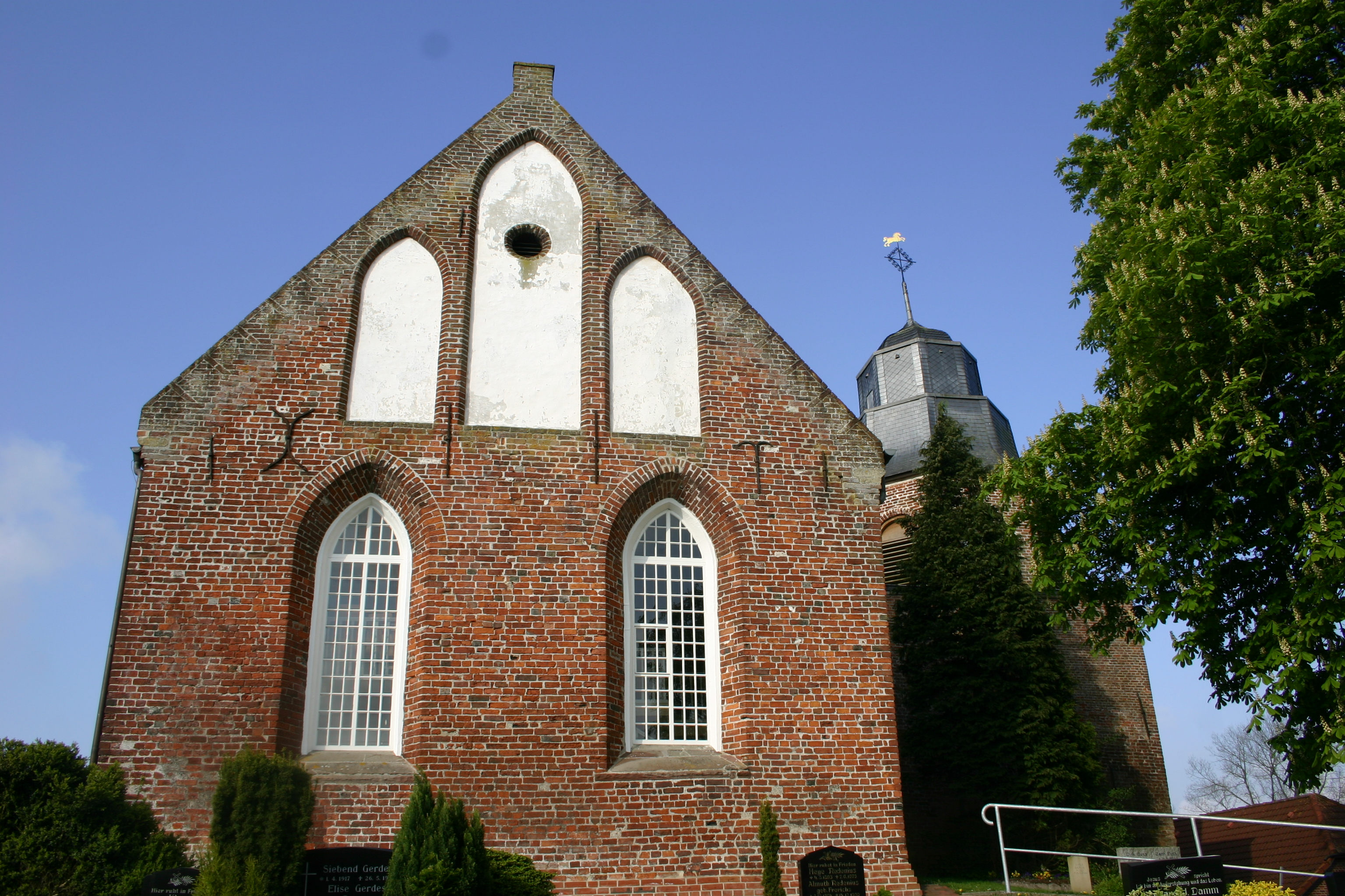 Historic church in Riepe, district of Aurich, East Frisia, Germany